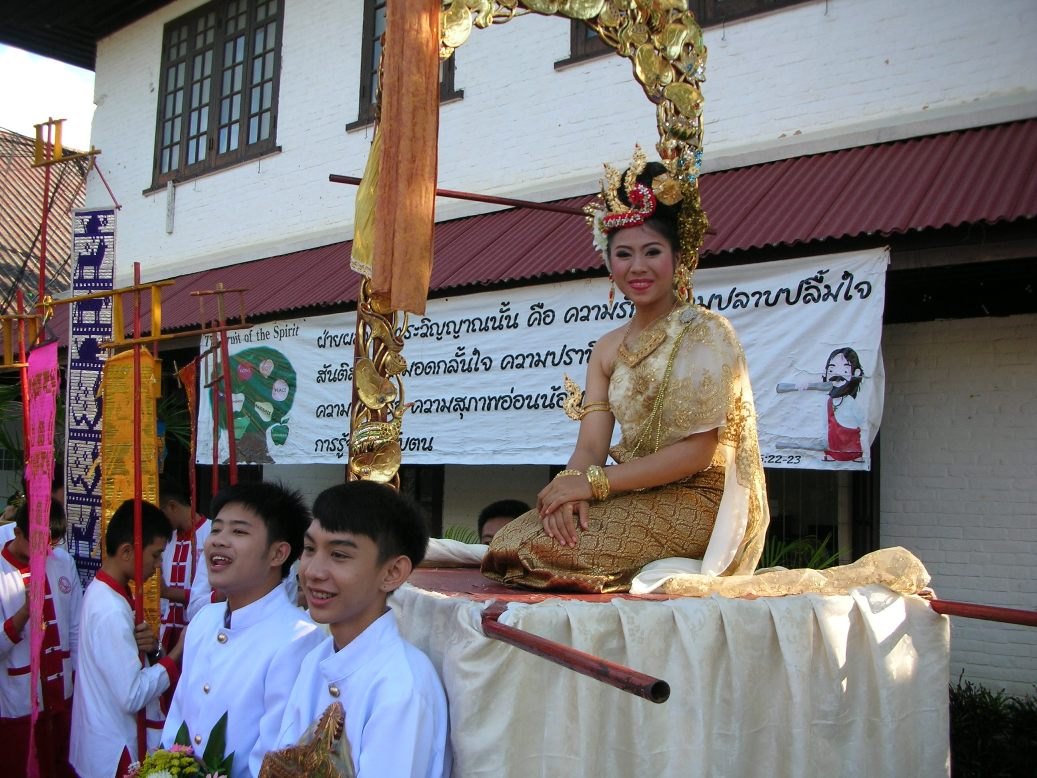 Chiang Rai Witthayakhom School 2012 Sports Day parade